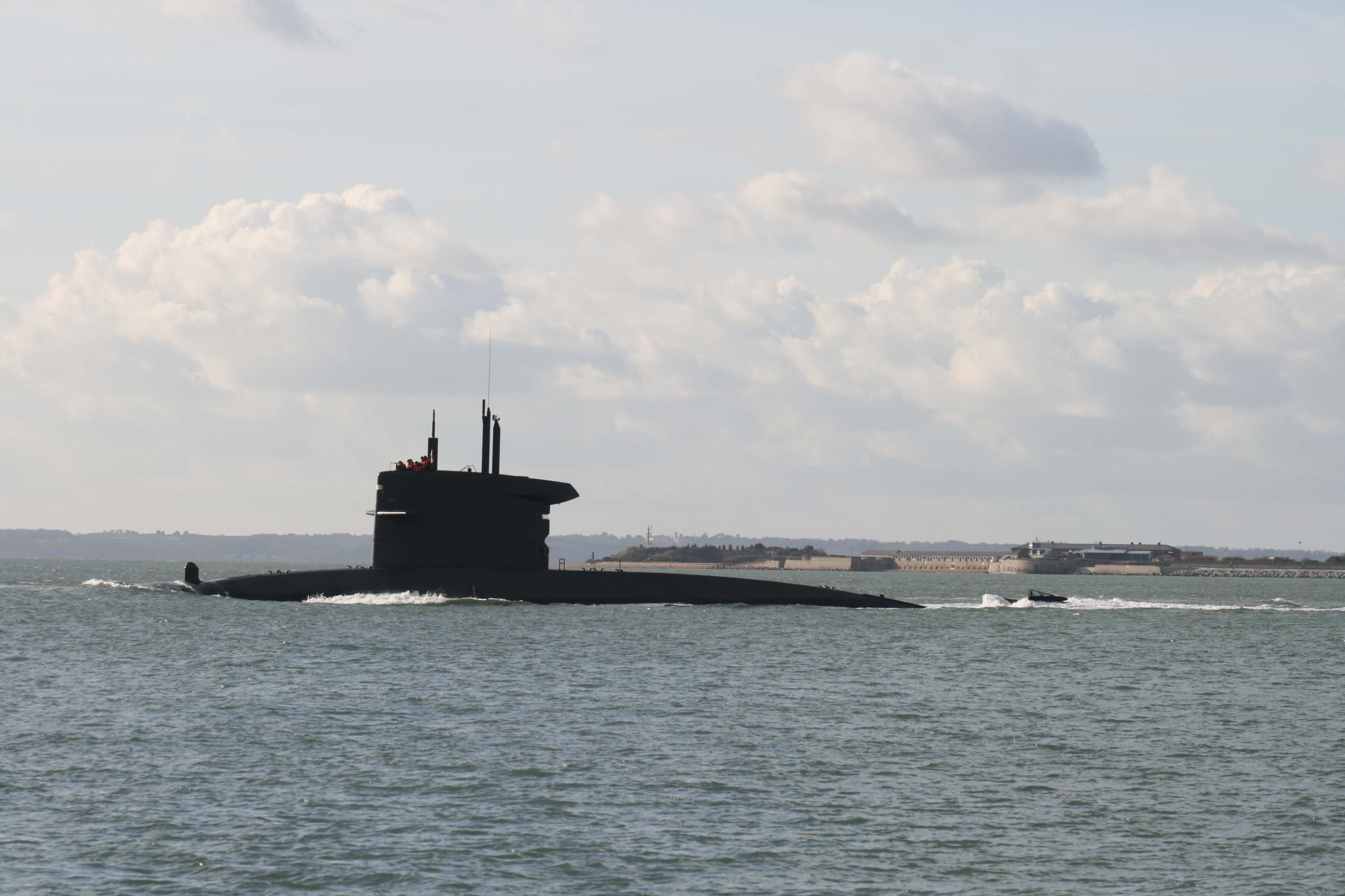 HNLMS Dolfijn, a Walrus class submarine of the Dutch Navy outward bound from Portsmouth Naval Base, UK, 1st February 2010. On the opposite shoreline can be seen behind the subs conning tower the Coastguard radar station at Fort Gilkicker on the left, and further right the top secret MI6 training base at Fort Monckton. In the far distance beyond Fort Gilkicker can be seen Queen Victoria's summer residence Osborne House on the Isle of Wight.Image uploaded by me George.Hutchinsonusing a photograph supplied by Brian Burnell. The photograph should be attributed to Brian Burnell.